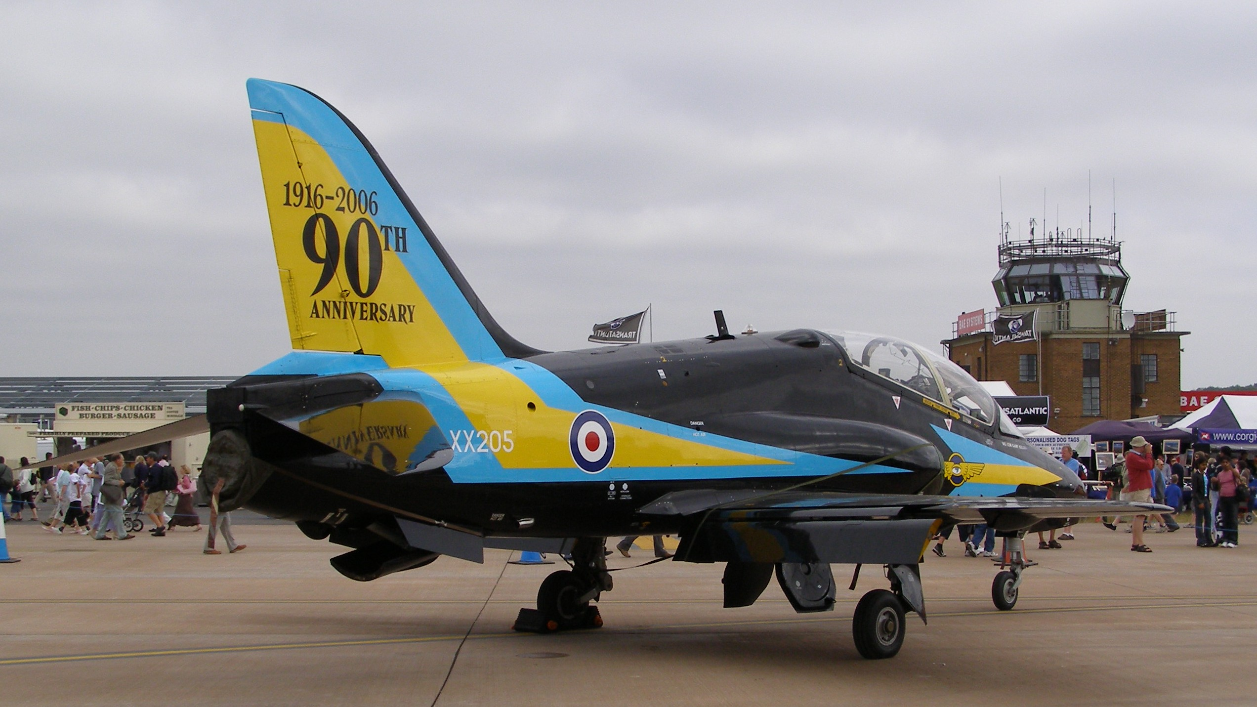 Royal Air Force BAe Hawk T1 "XX205" painted for the 90th Anniversary of 208 Squadron (1916-2006) on display at the Royal International Air Tattoo, RAF Fairford.